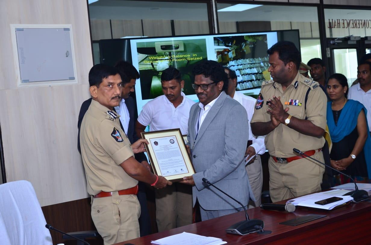 Mr. savarapu vijay kumar is taking National Intellectual property award -2019